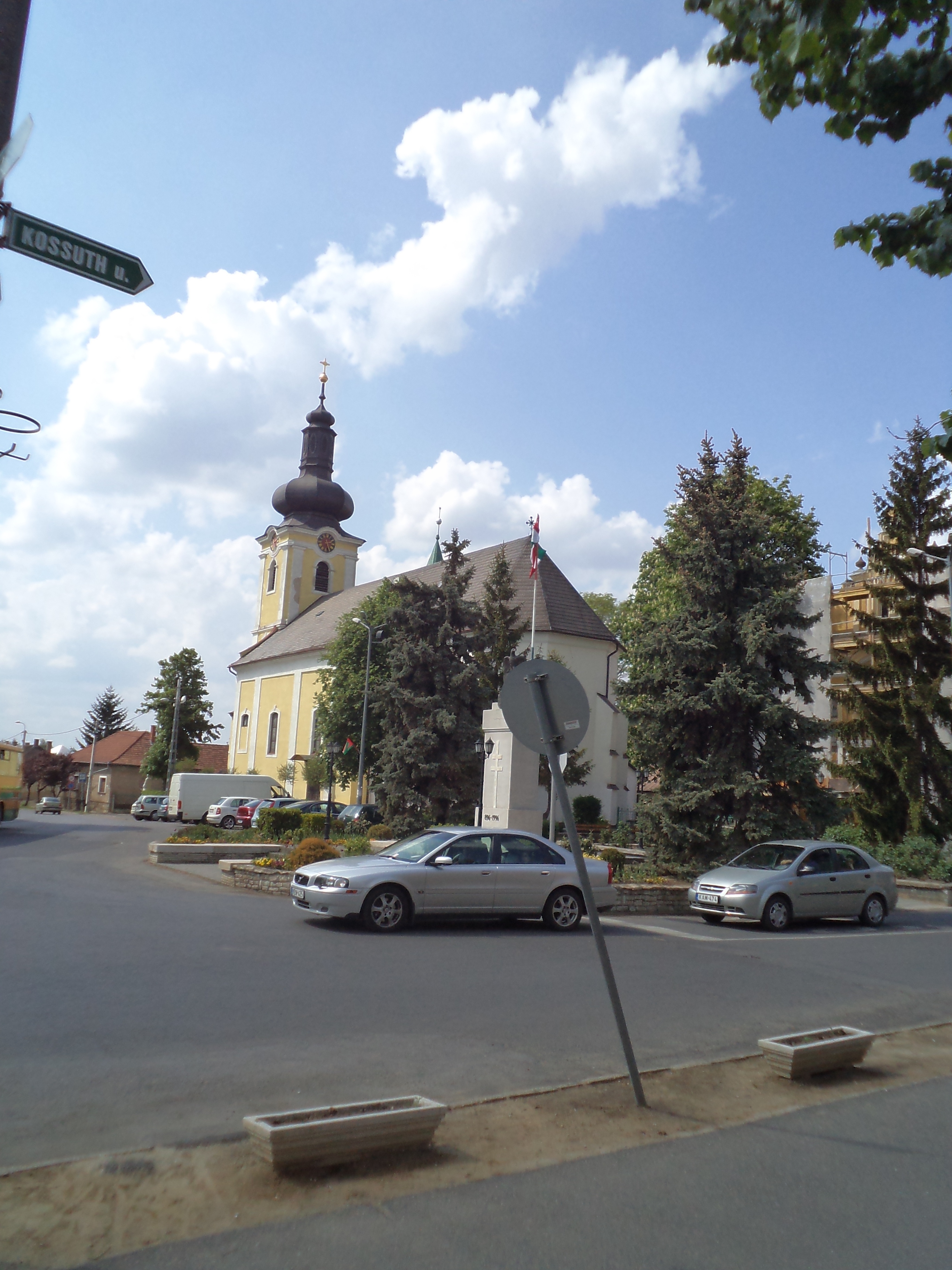 Kisvárda, Catholic Church